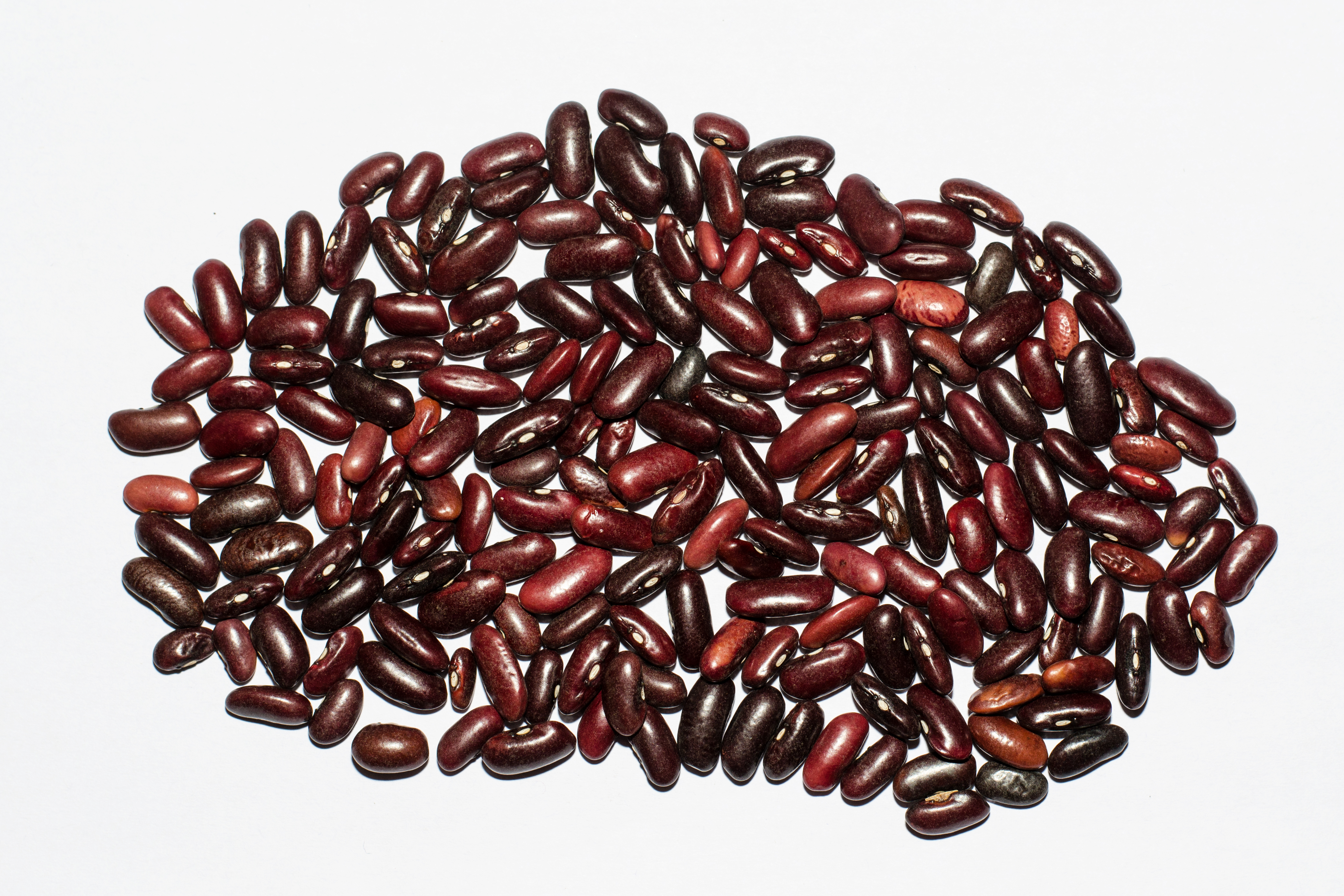 Red Rajma